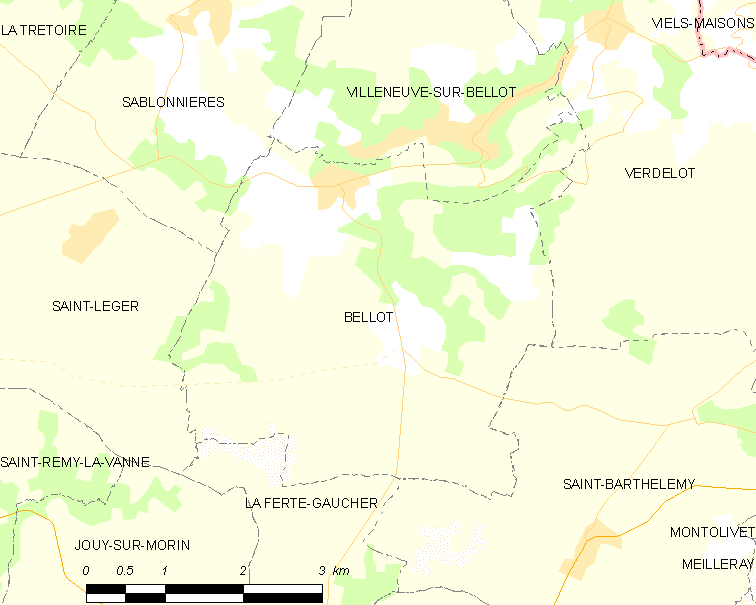 Map of French municipality Bellot